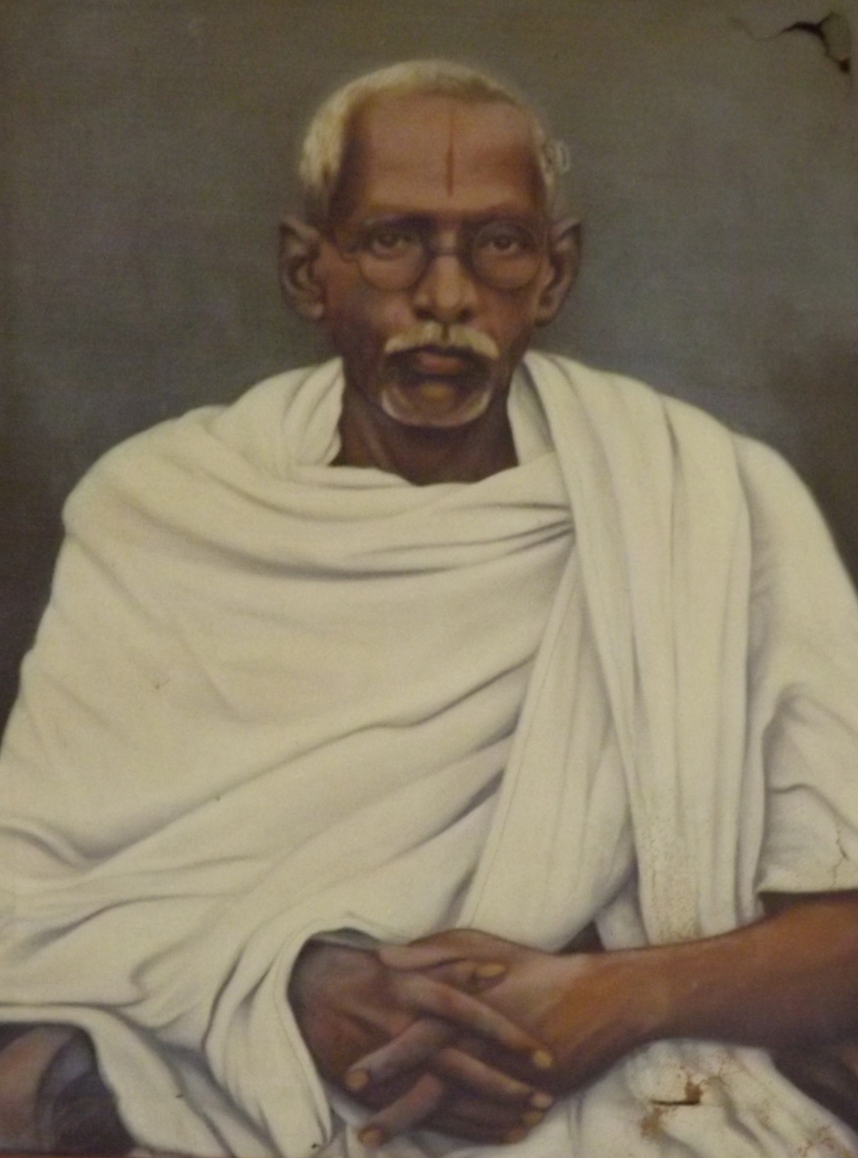 Bhupathiraju Tirupathiraju, Founder of Veeresalinga Kavi Samaja Library, Kumudavalli